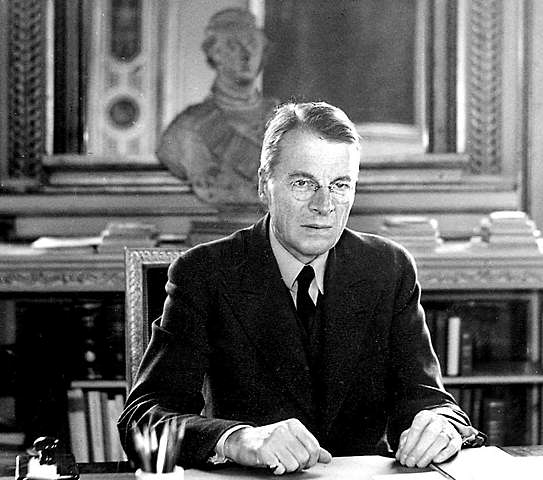 Ministers for Foreign Affairs of Sweden Christian Günther behind his desk in the Arvfurstens palats during the Winter War, January 1, 1940.